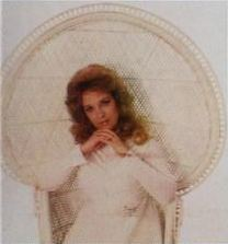 A photograph of Connie Smith in Billboard Magazine in the May 21, 1977 issue